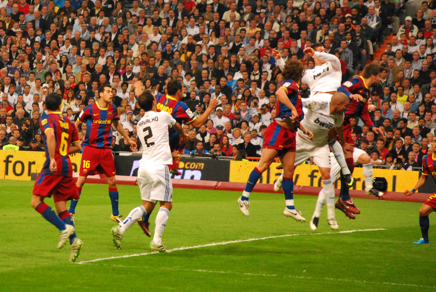 El Clásico